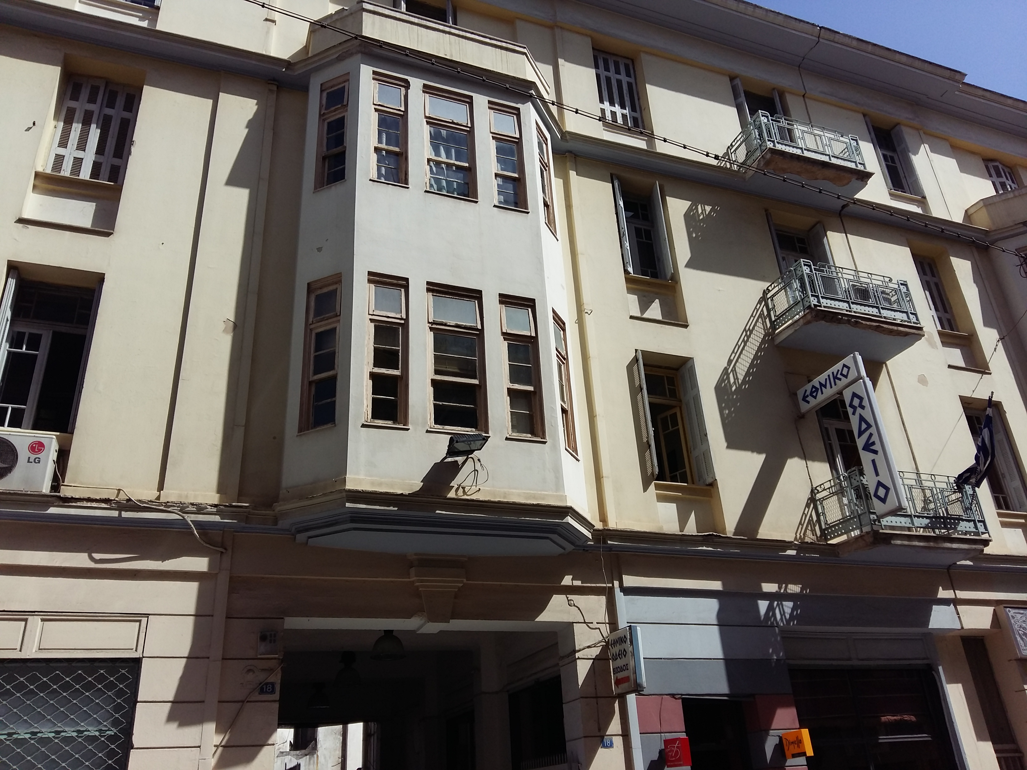 The headquarters (since 1969) of Greek National Conservatoire, located in Athens.